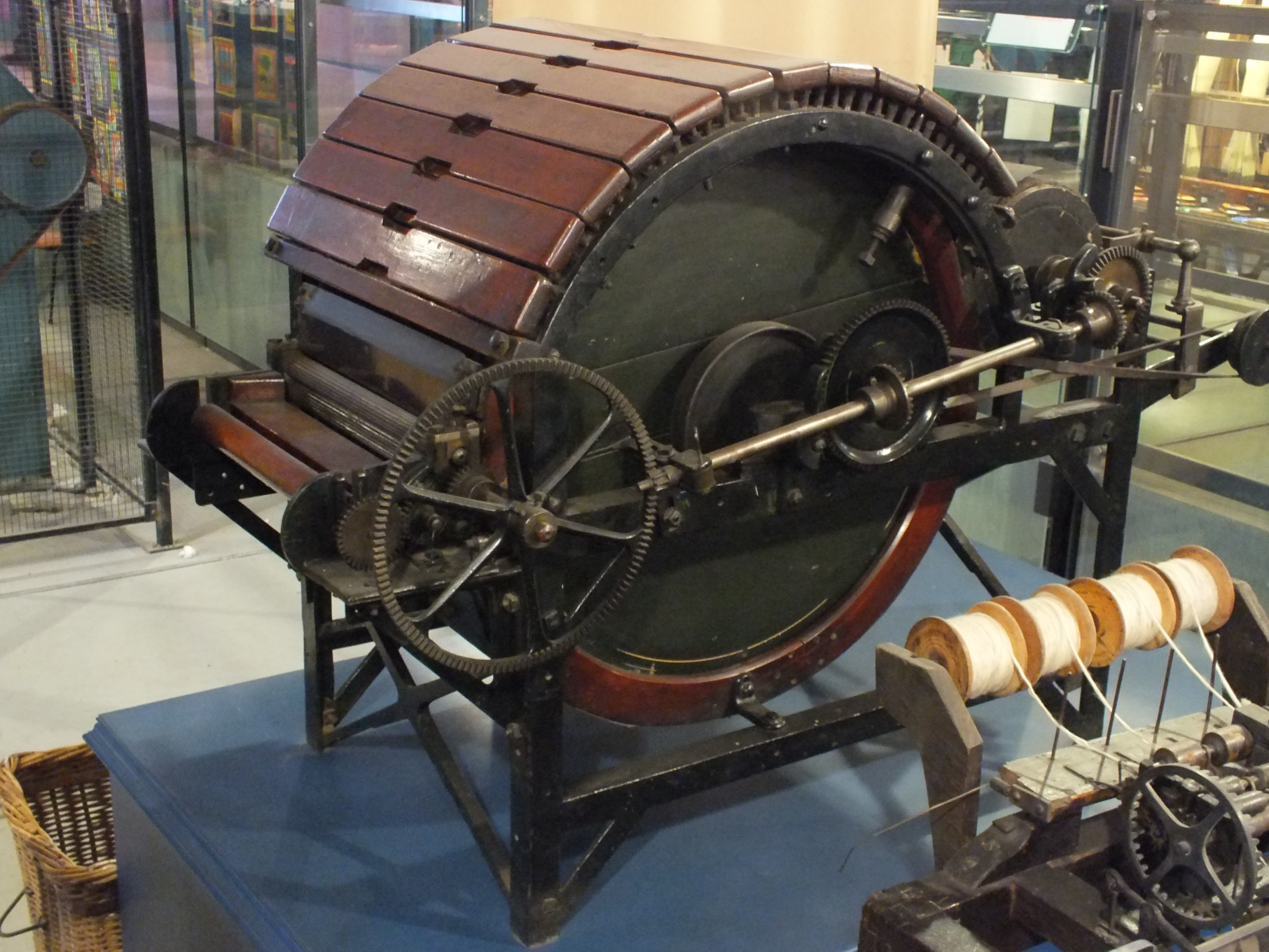 The Museum of Science and Industry (Manchester) contains a collection of textile machines that demonstrate the whole process used in a Cotton mill, and a few key eighteenth century machines. - Google Maps - Google Earth